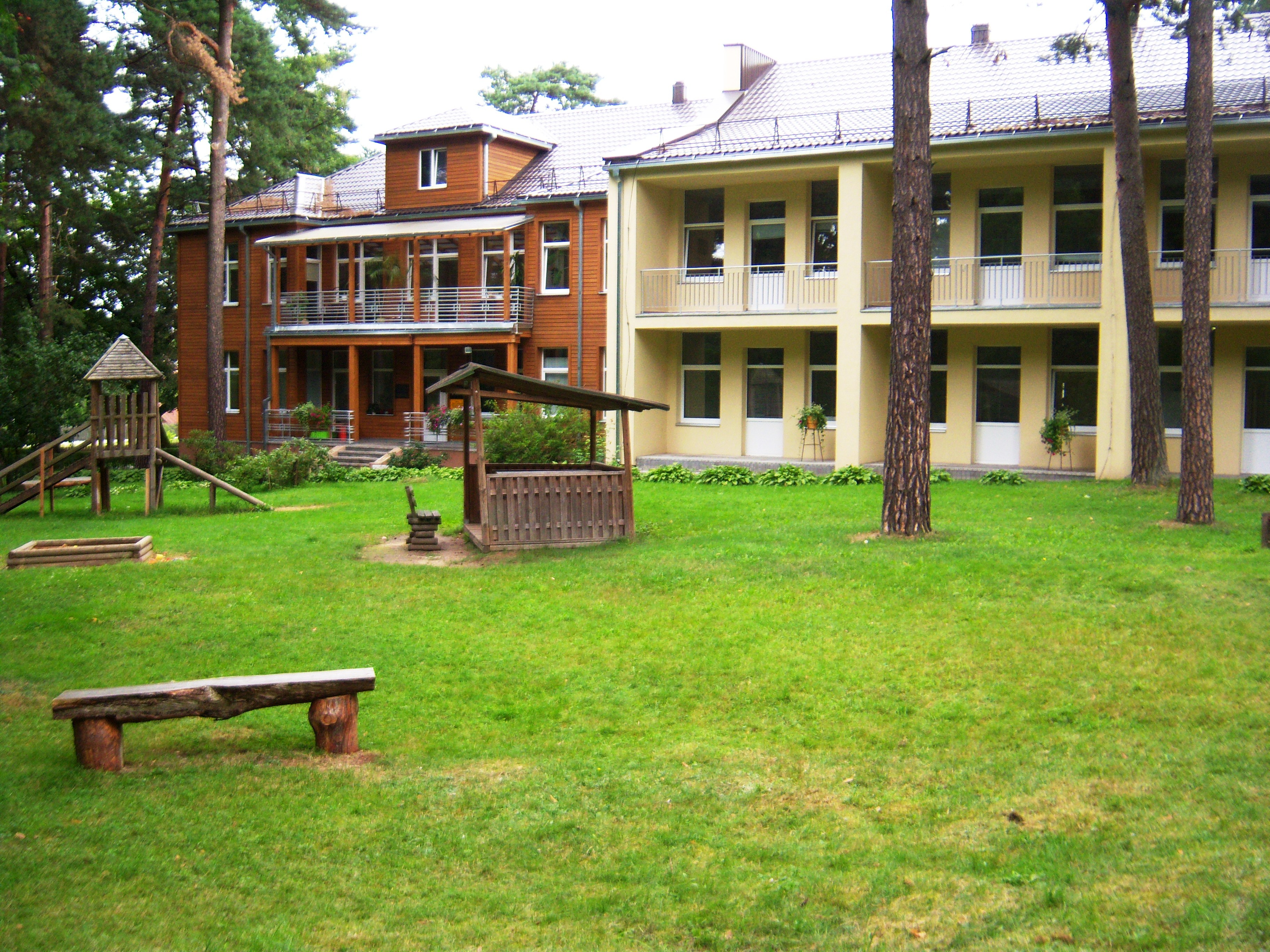 V Tumėnienė Children's Rehabilitation Center School, Kaunas, Lithuania